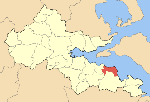 Locator map of Dafnousia municipality (Δήμος Δαφνουσίων) in Fthiotida prefecture (Νομός Φθιώτιδας) in Greece.